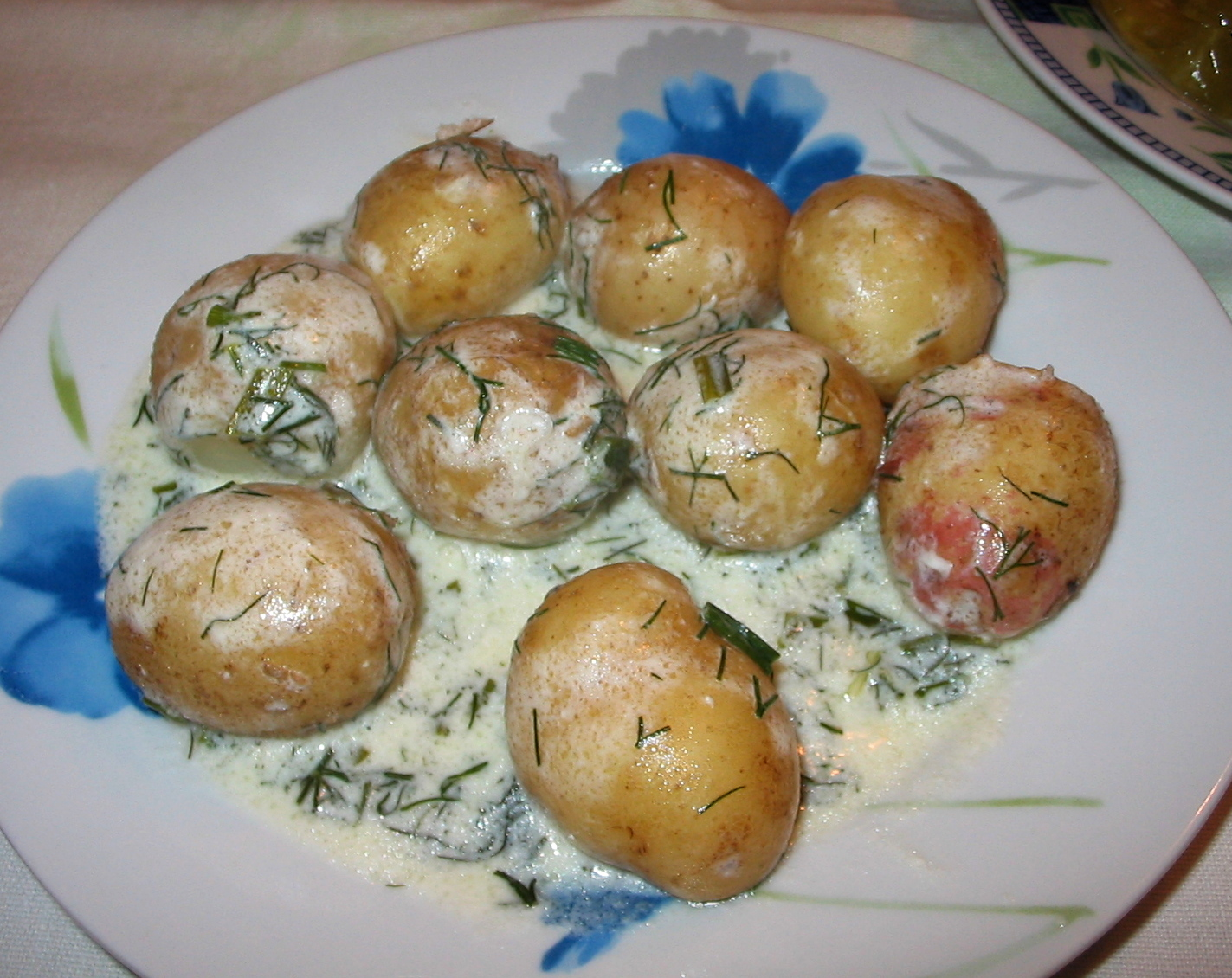 Young potatoes baked with sour cream